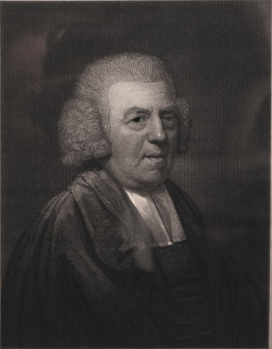 John Newton (1725-1807), slave trader, abolitionist, minister, and author of the hymn "Amazing Grace"